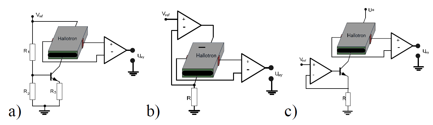 Hall effect sensor power supply